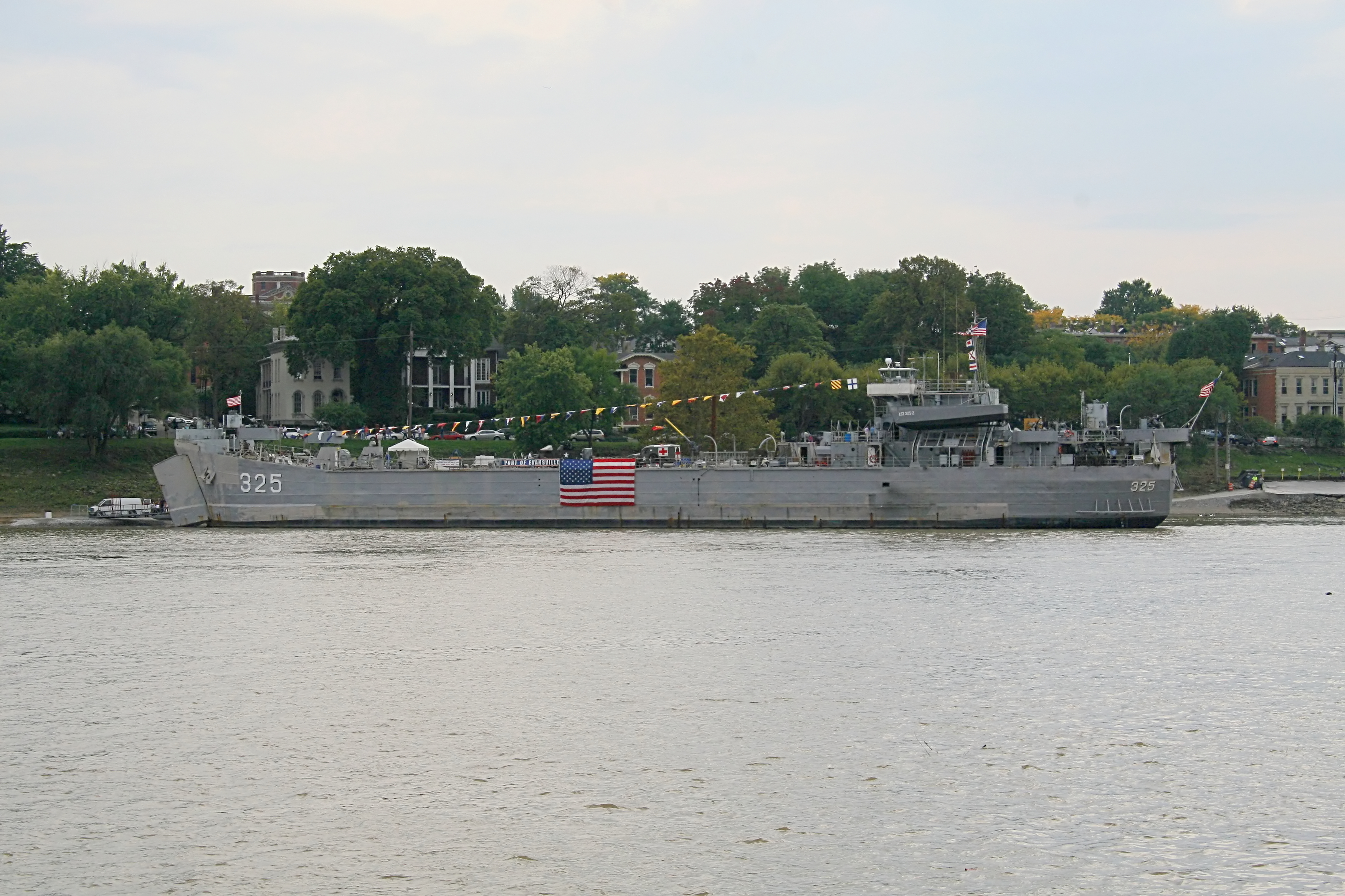 UST325, the Port of Evansville at the Tall Stacks festival in 2006.